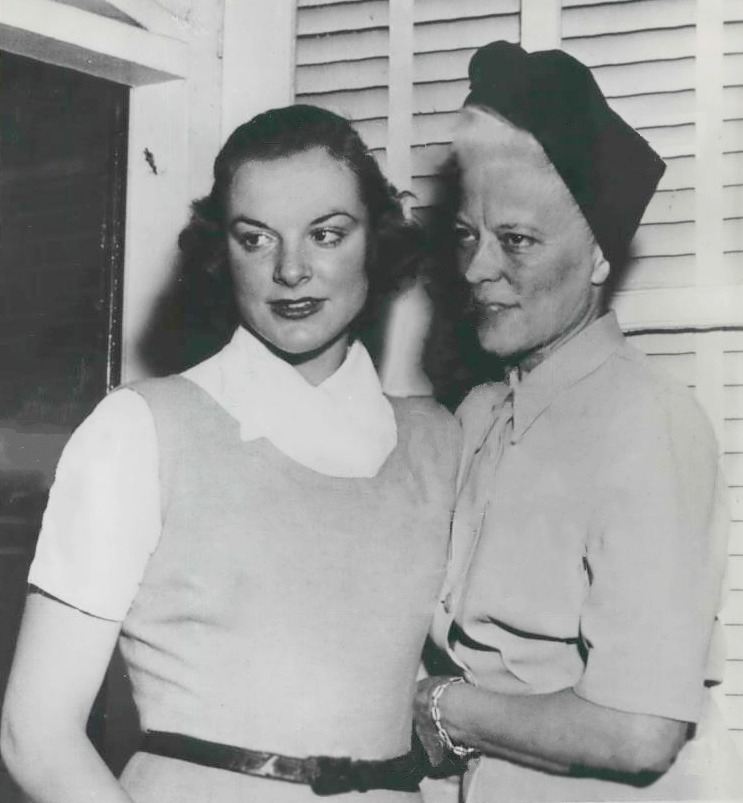 1952 Press Photo Delia Muelenkamp, US Olympic Swimming team prospect - net05407